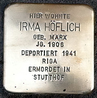 Stolperstein - Stumbling Stone in Nettetal, NRW, Germany Irma Hoeflich